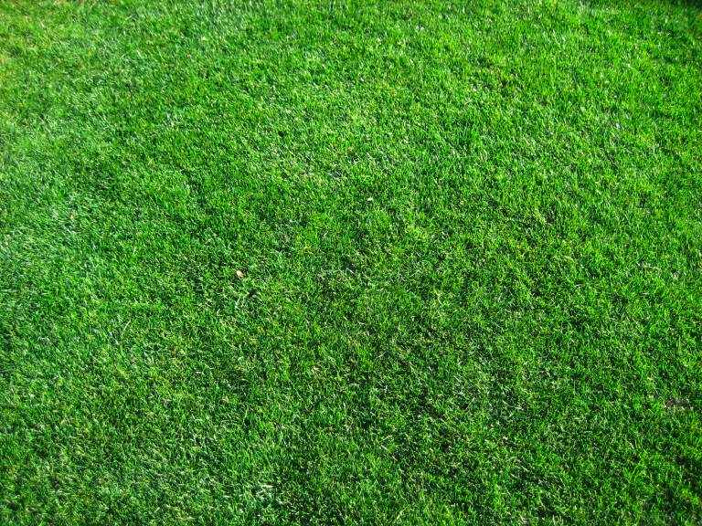 Lawn